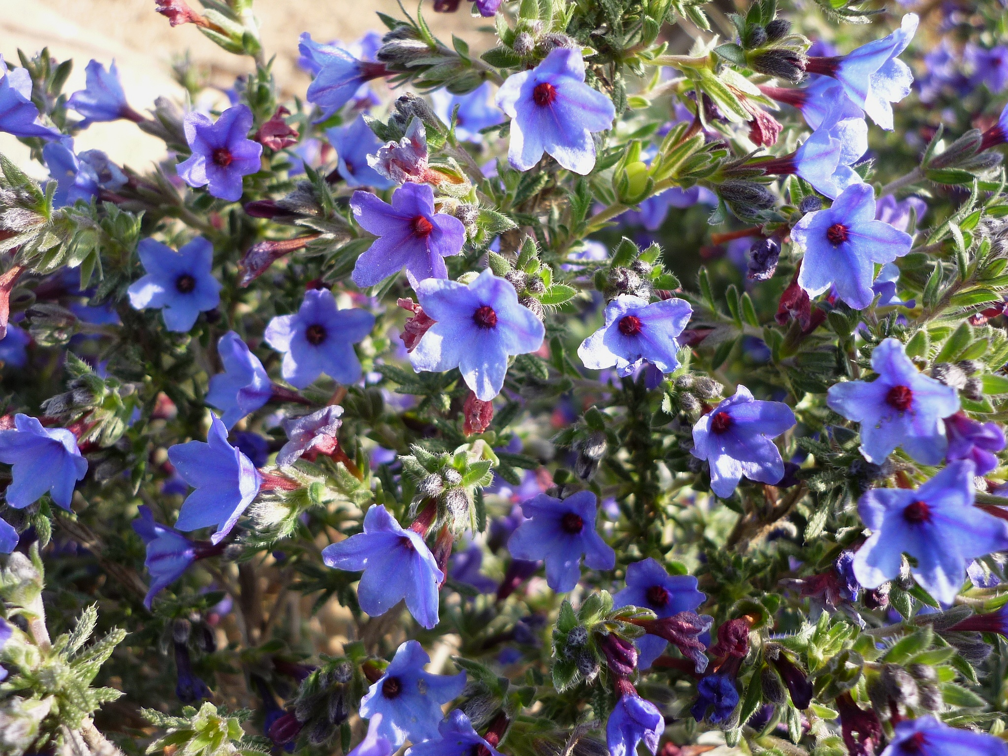 Lithodora fruticosum. In Torà (Segarra- Catalunya). On 570 m. altitude